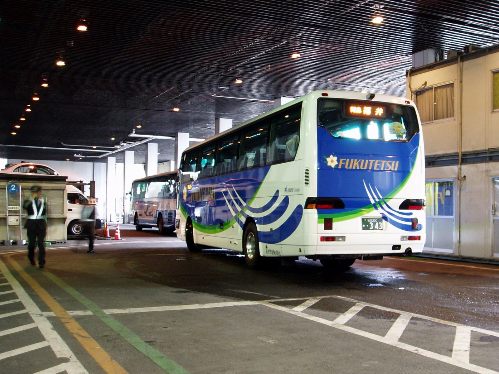 JR Bus Kanto Shinjuku Sta